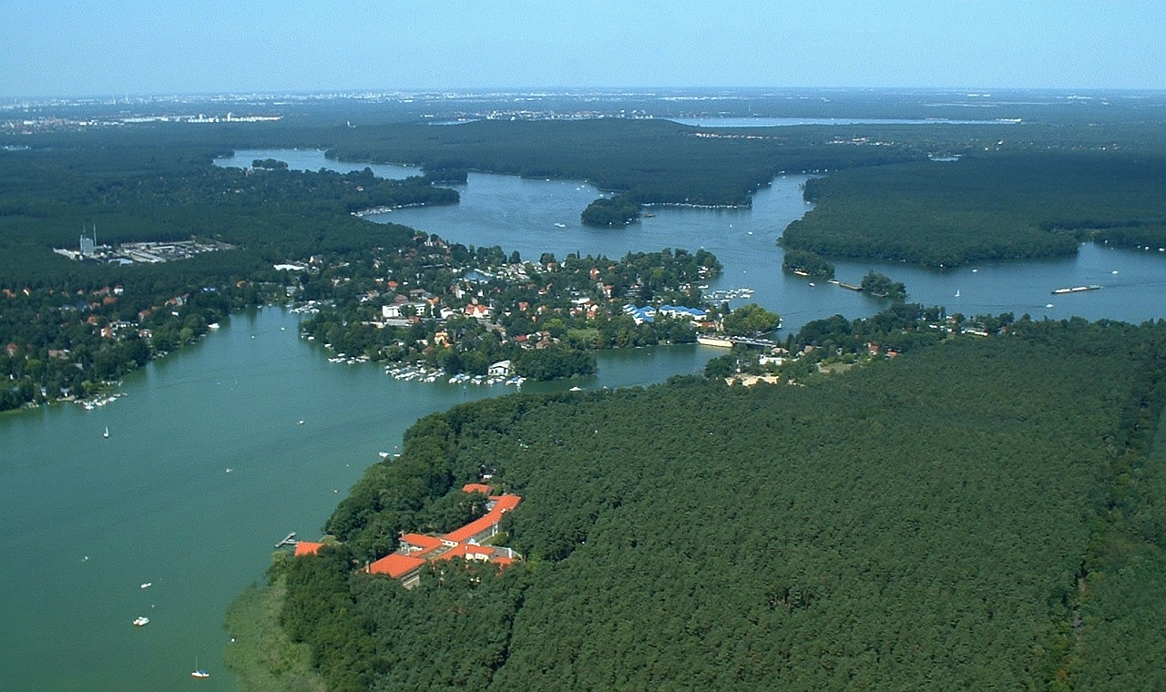 Aerial view of Schmöckwitz, Treptow-Köpenick, Berlin and the lake region in the southeast of Berlin, view direction NNW.